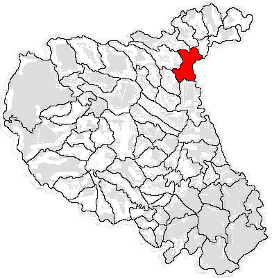 Map of limits of commune in Vrancea County